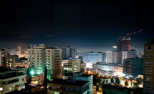 Magnificent Nicosia skylines by night